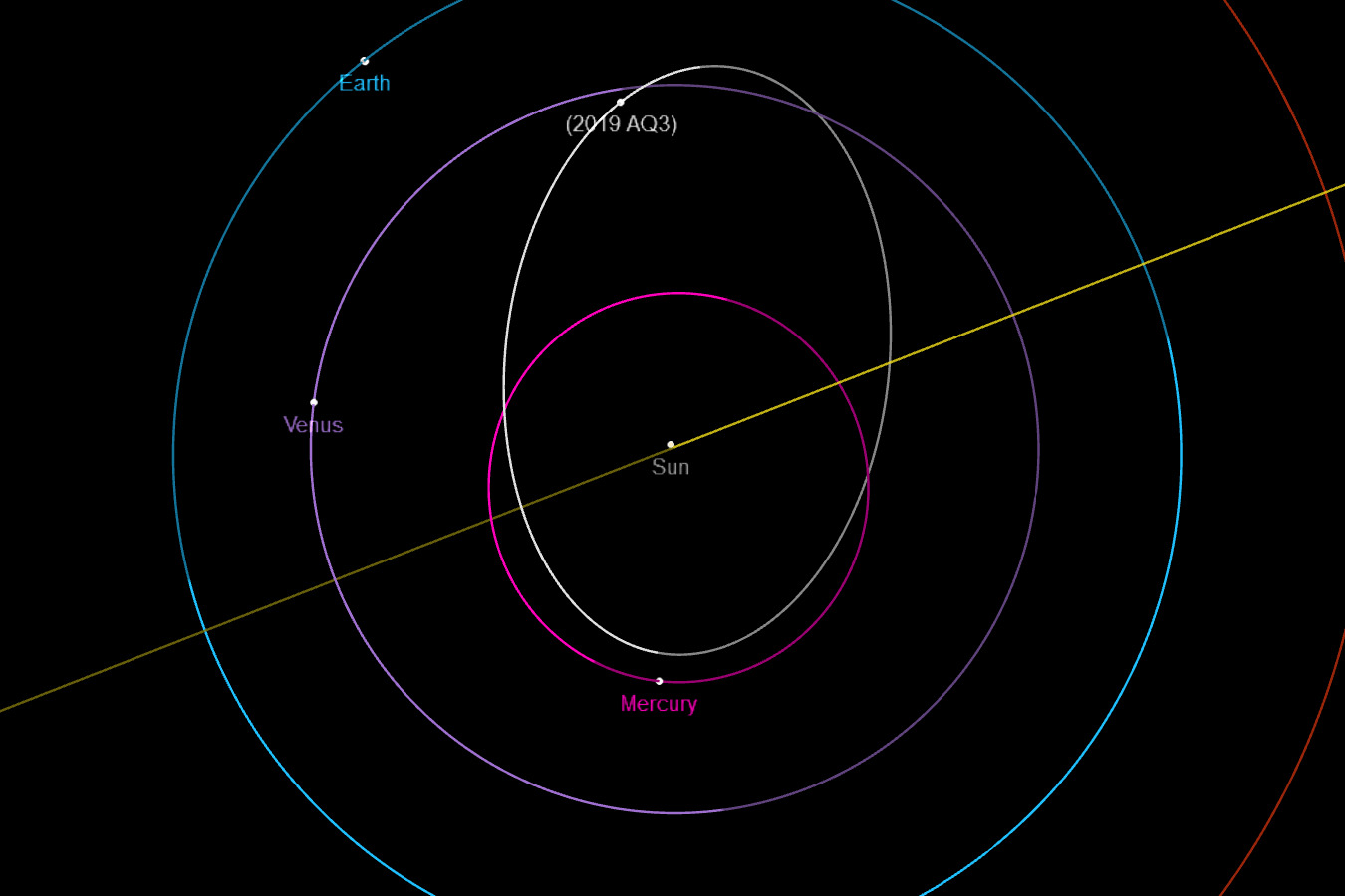 polar view of 2019 AQ3's orbit in the solar system